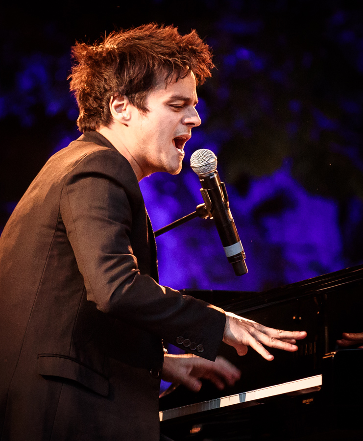 Jamie Cullum at the stage by the Carp pond at Akershus Festning. The concert was part of Oslo Jazzfestival and took place on 13. August 2017. Lineup:Jamie Cullum (vocal)Tom Richards (saxophone)Rory Simmons (trumpet)Loz Garratt (bass guitar)Brad Webb (drums)